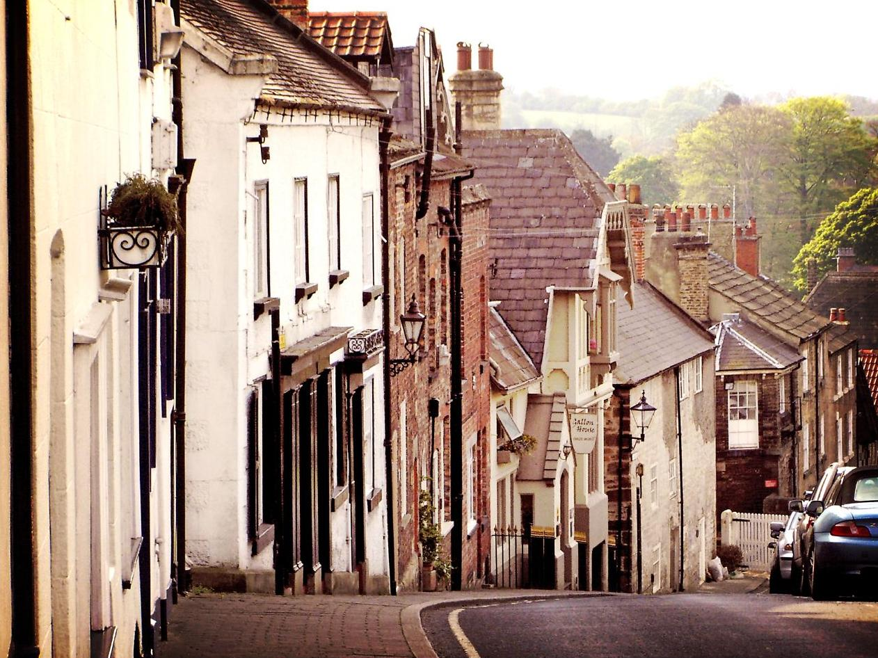 Kirkgate, Knaresborough.